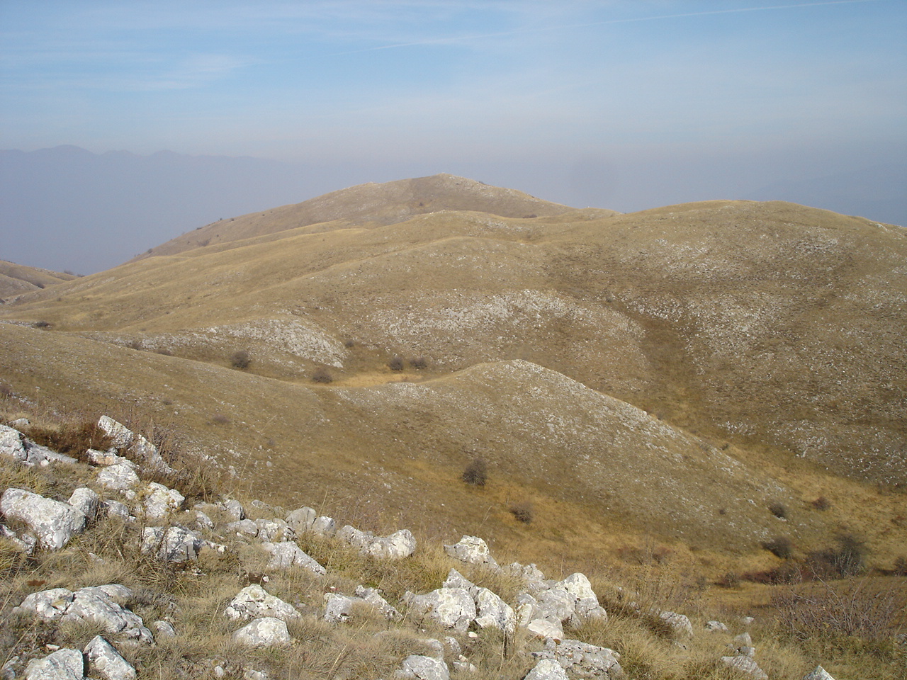 Bukovik mountain with peak Tepe in western Macedonia